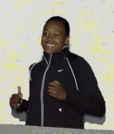 Marion Jones, American olympic athlete.